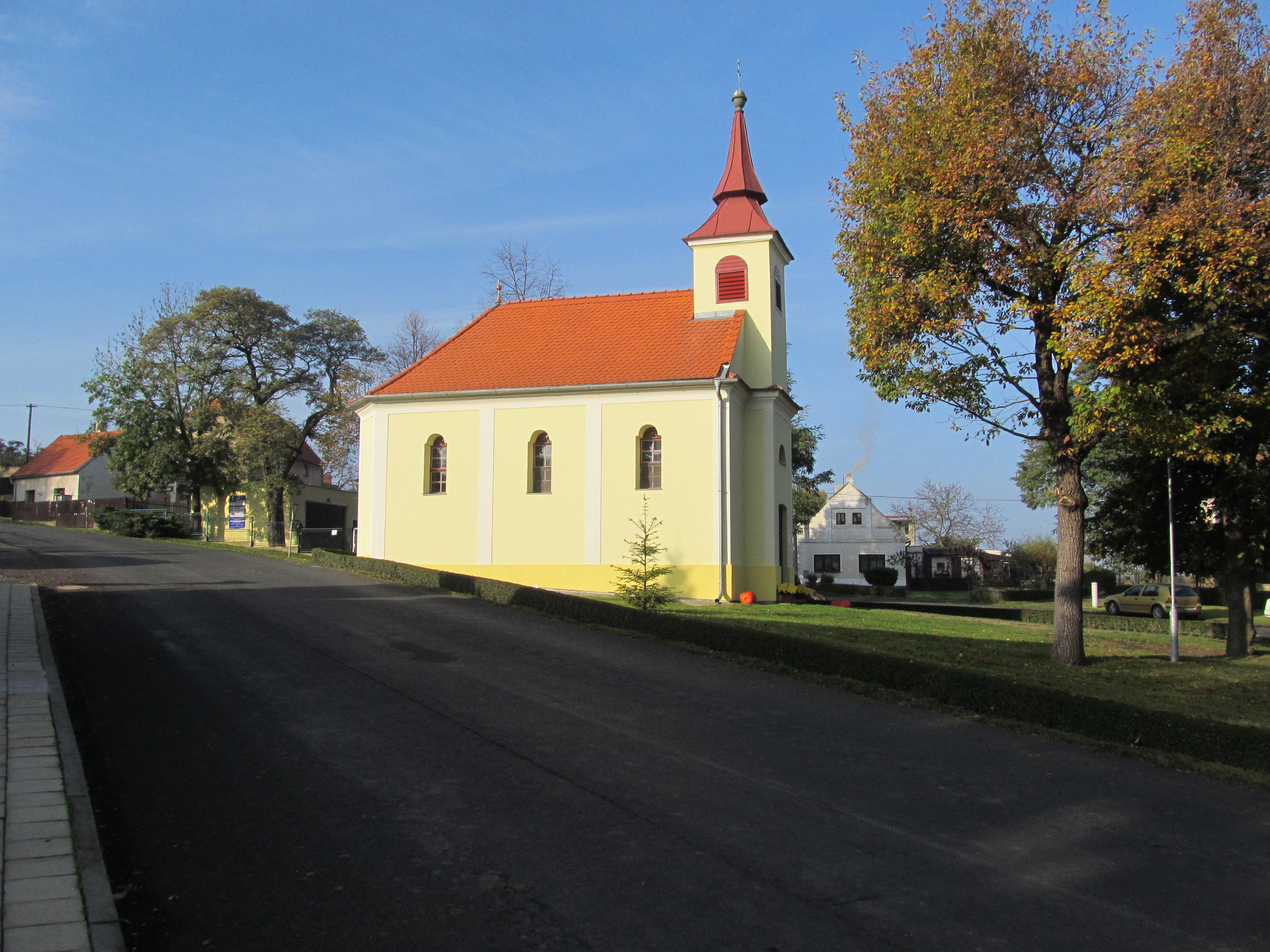 Chapel of Holy Guardian Angels from 1856 in Čeradice